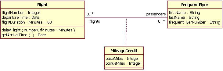 UML Association Class Diagram